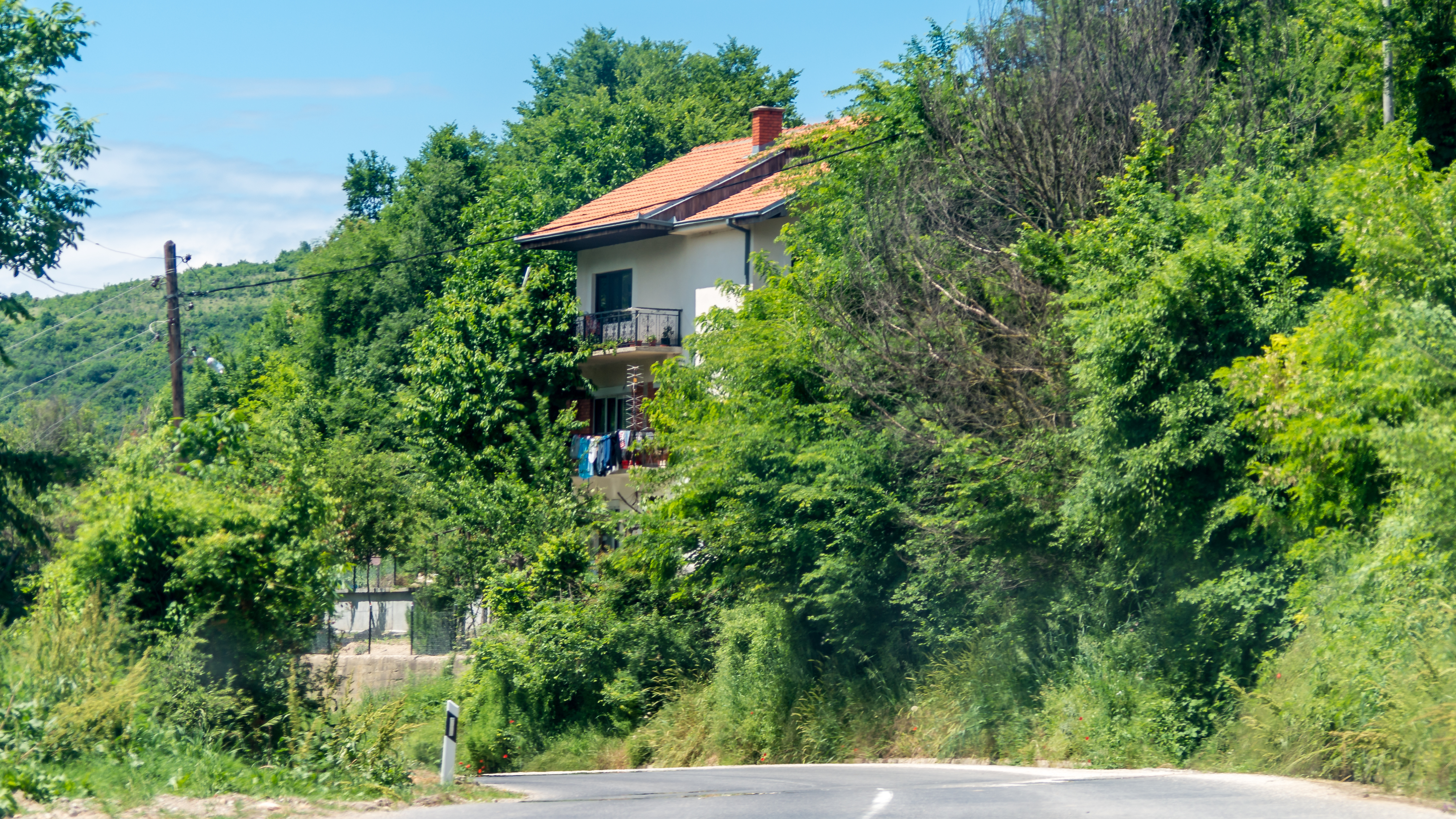 Part of the village Železnica